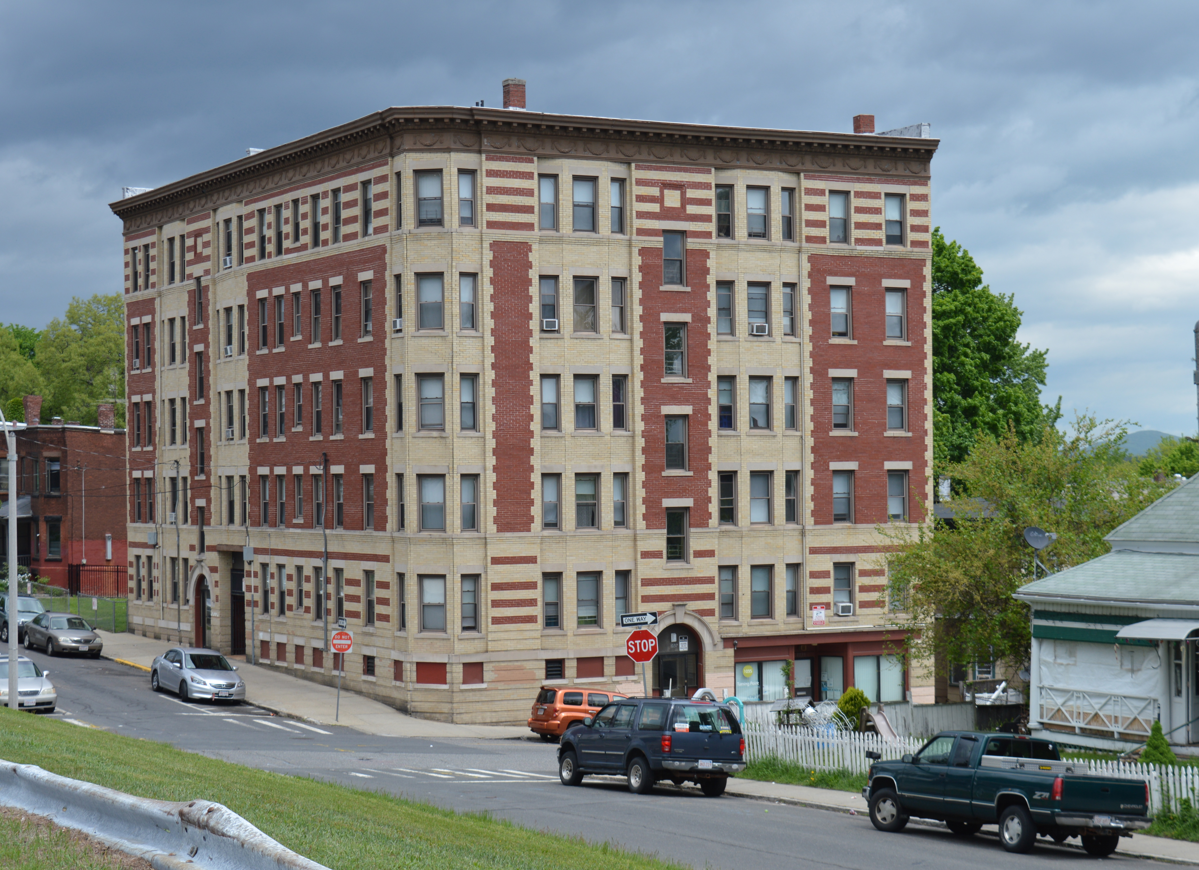 The Gauthier Block, a neoclassical building designed by Holyoke architect Oscar Beauchemin, now known as Wayfinders Dwight/Clinton for the nonprofit housing service which current manages the property. Built in 1910, it displays many features typical of its architect's work, including belt courses at the top and ground floors, and inset faux bay windows.